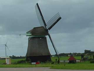 second try, different angle pic Dutch windmills